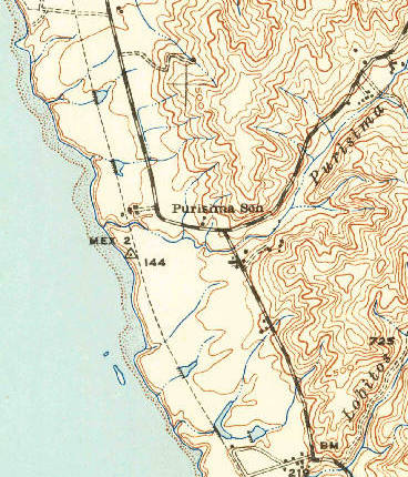 Some buildings still remained as late as the 1930s, but the town was largely abandoned before World War II. The 1940 U.S. Geological Survey map shows a few buildings and notes the "Purisima School."